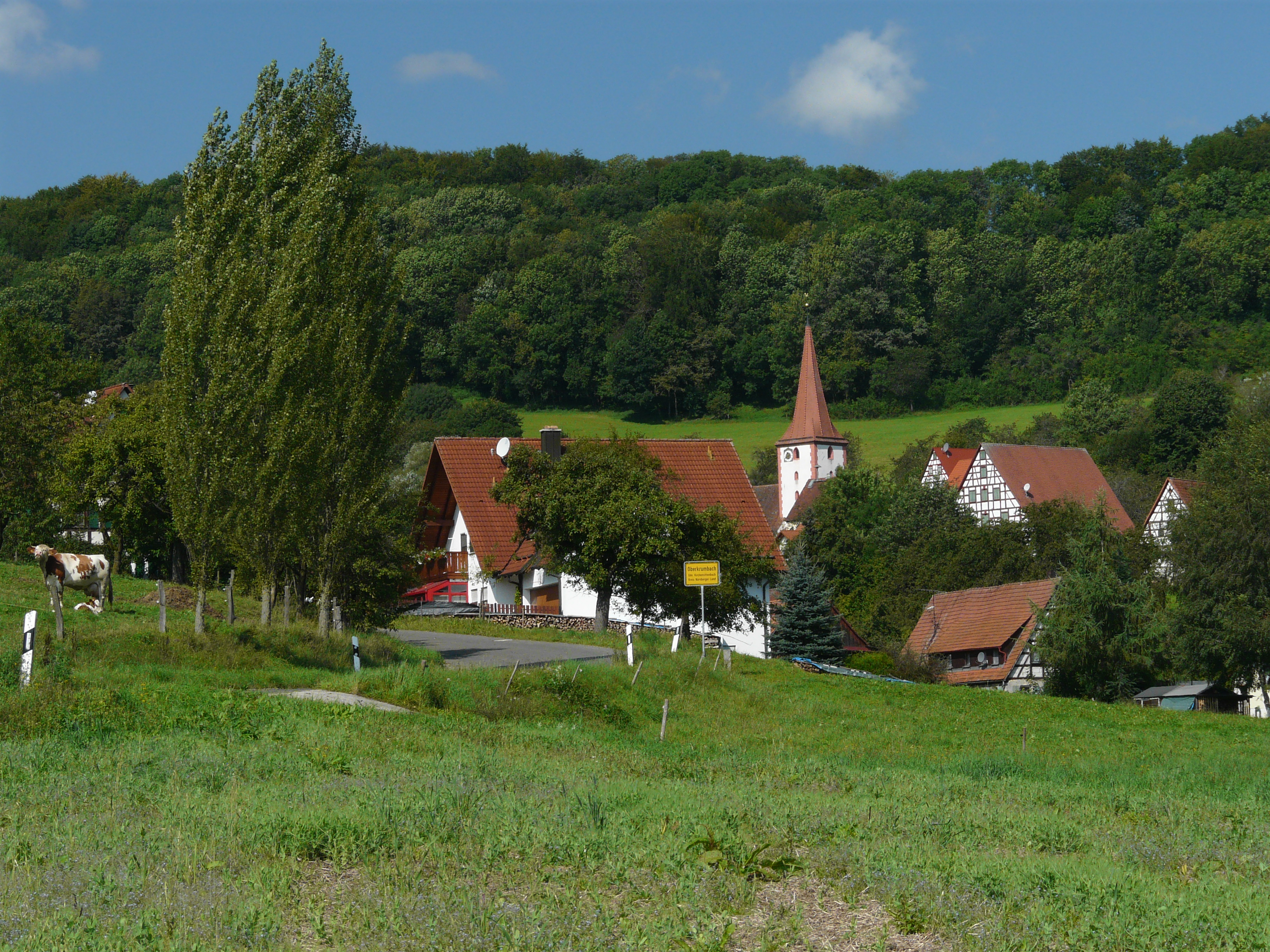 Oberkrumbach, part of the municipality of Kirchensittenbach